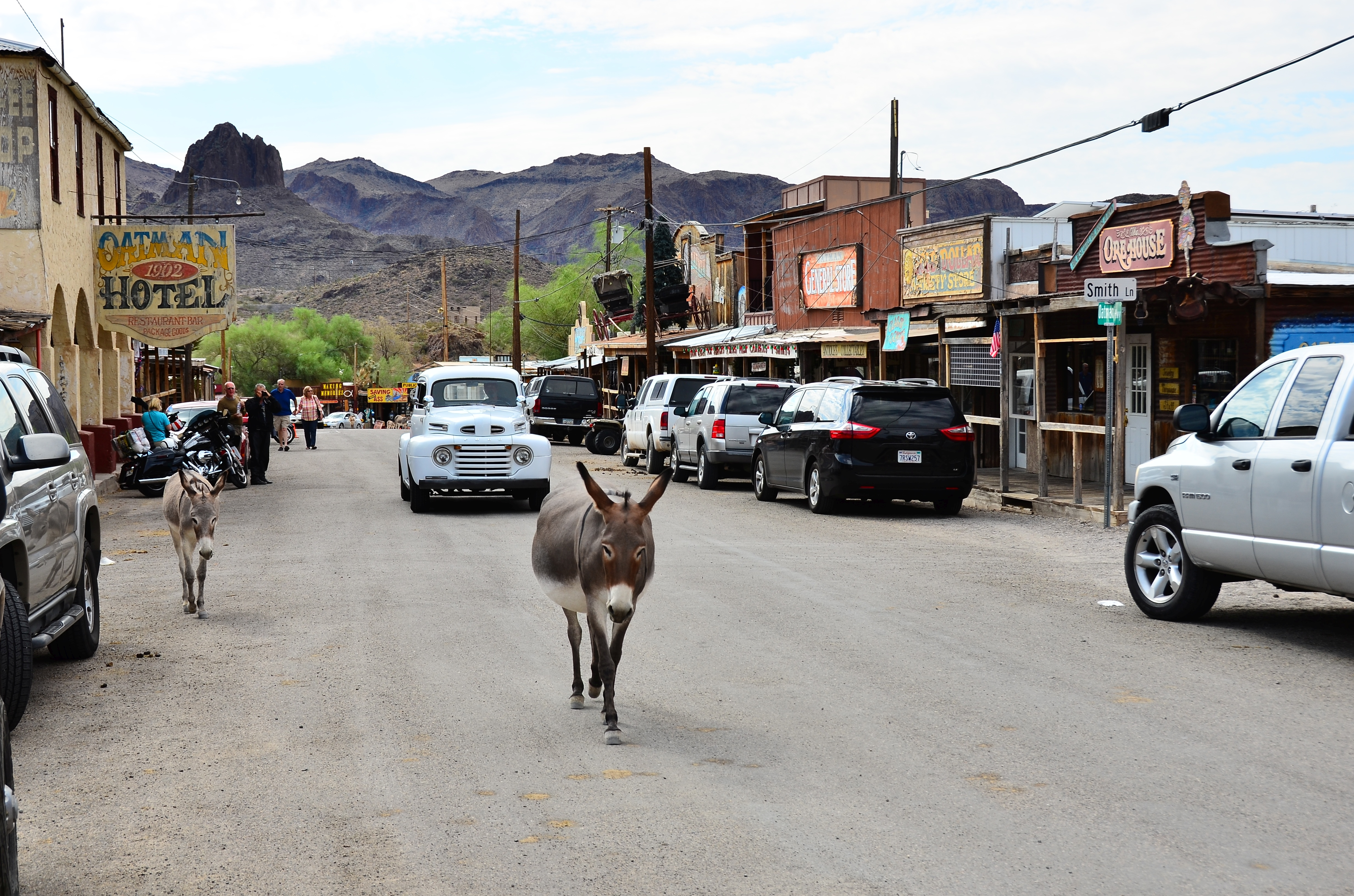 Old U.S. Route 66, Oatman Highway, Oatman, Arizona, taken on August 19, 2016